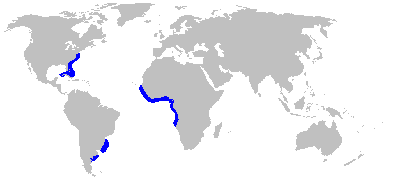 Distribution map for Carcharhinus signatus